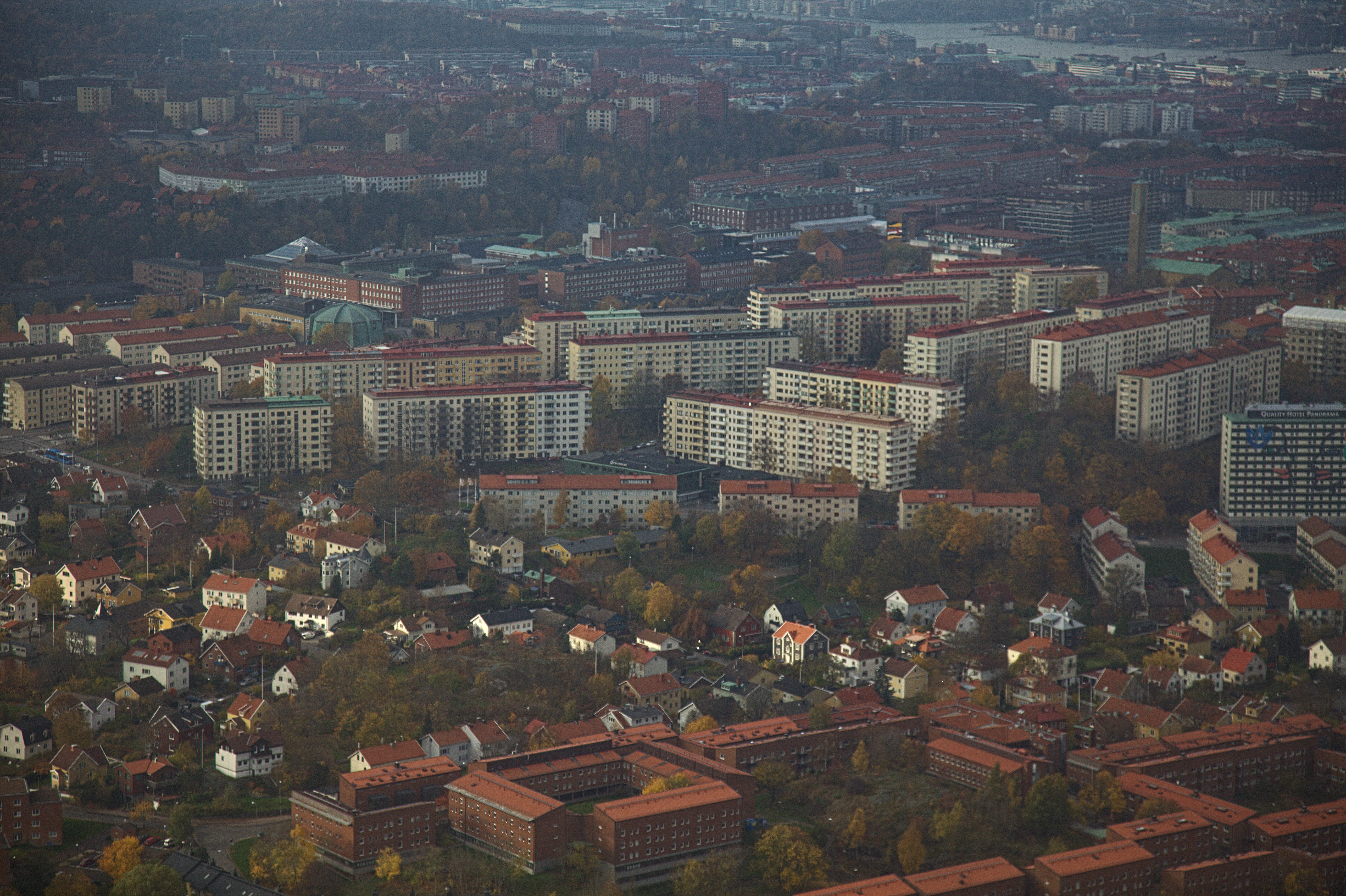 Photo taken on a helicopter over Gothenburg